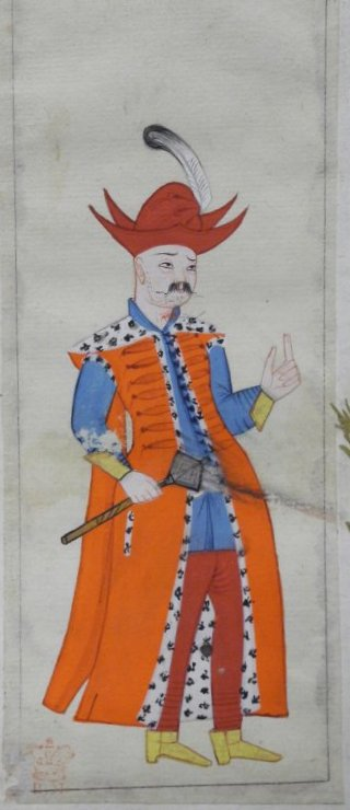 Ottoman Turkish Illustrations from Peter Mundy's Album, "A briefe relation of the Turckes, their kings, Emperors, or Grandsigneurs, their conquests, religion, customes, habbits, etc" - Istanbul 1618